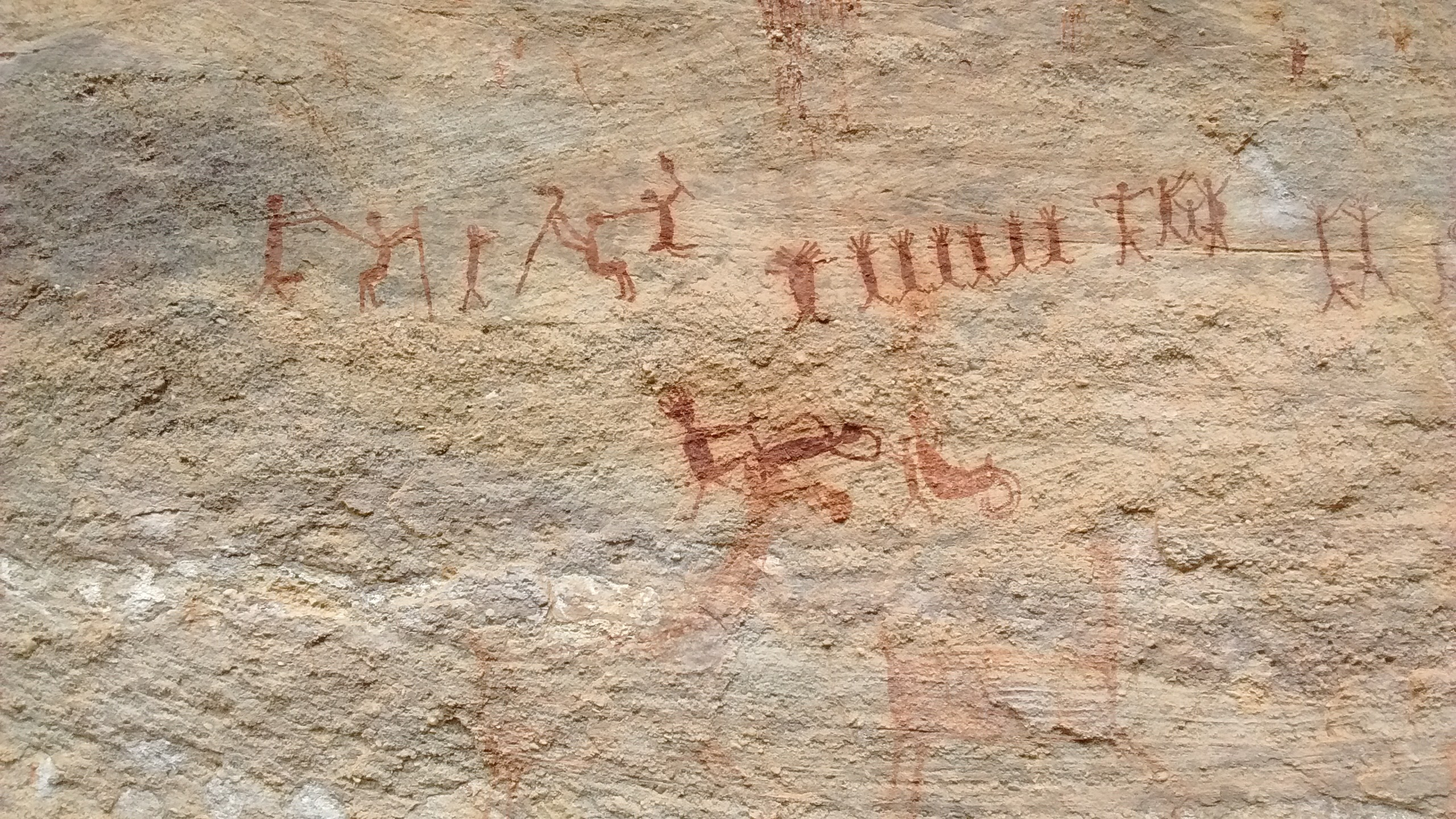 Cave art at Toca da Entrada do Caldeirão dos Rodrigues, Serra da Capivara National Park, Brazil